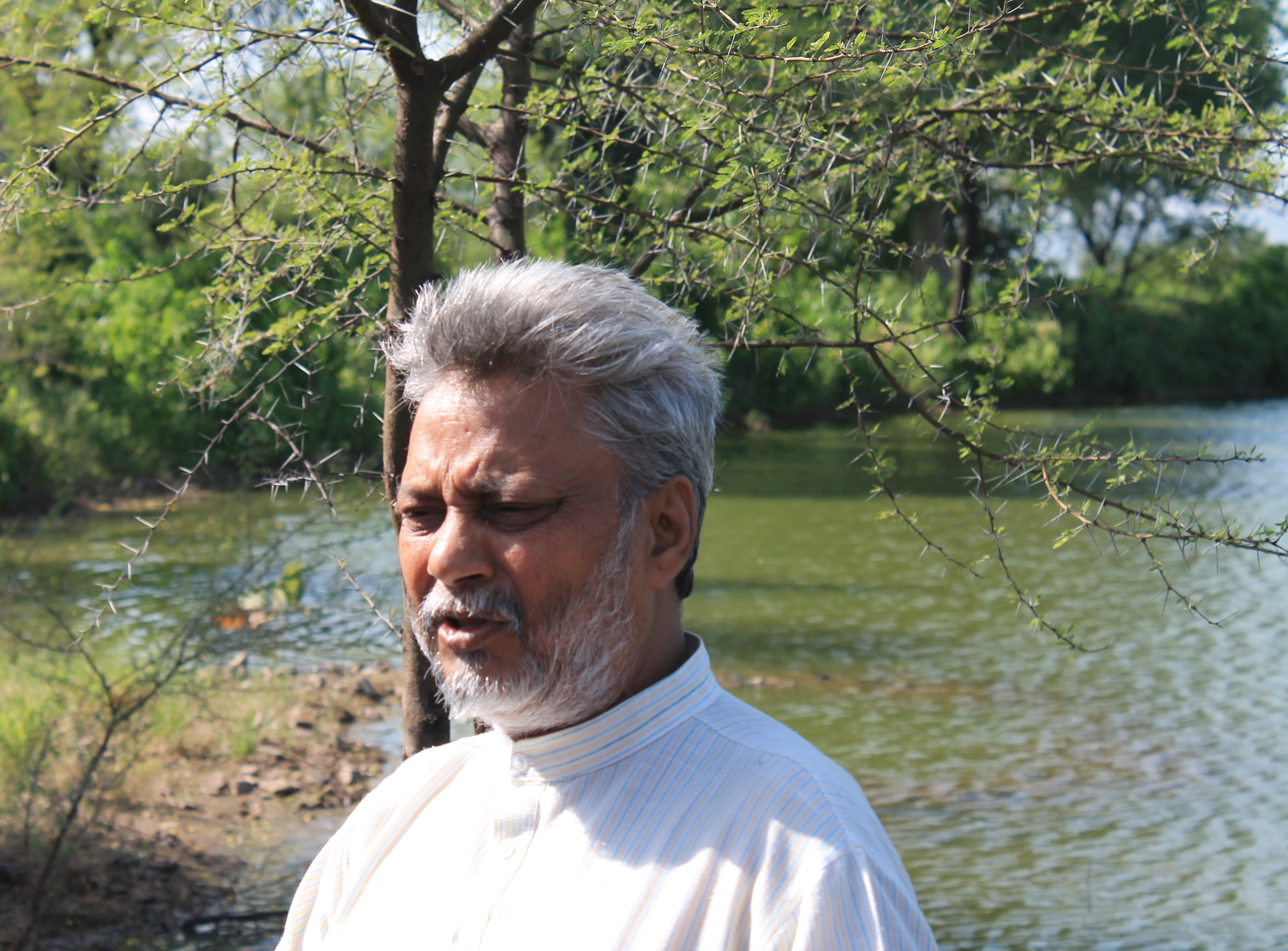 The water man of India